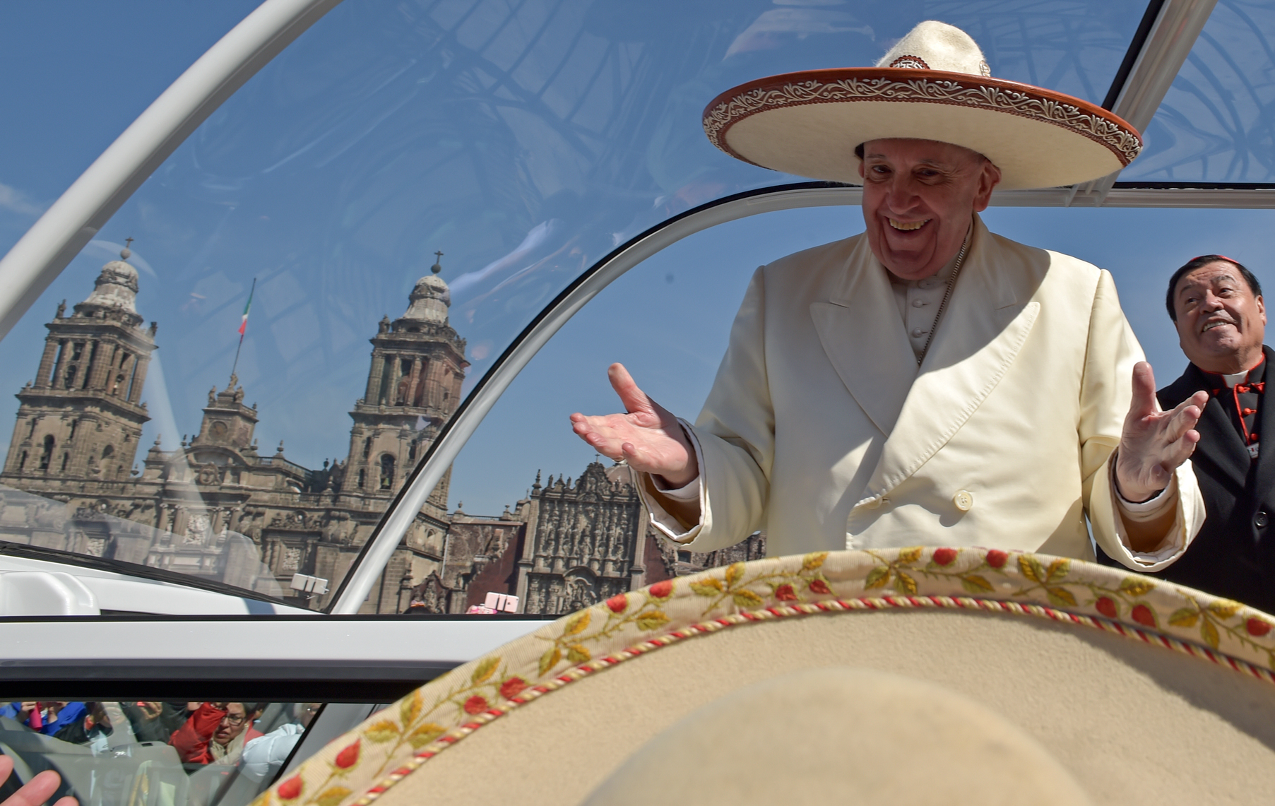 Reconocemos en el Papa Francisco a un líder sensible y visionario, que está acercando una institución milenaria, a las nuevas generaciones. 13 de Febrero del 2016